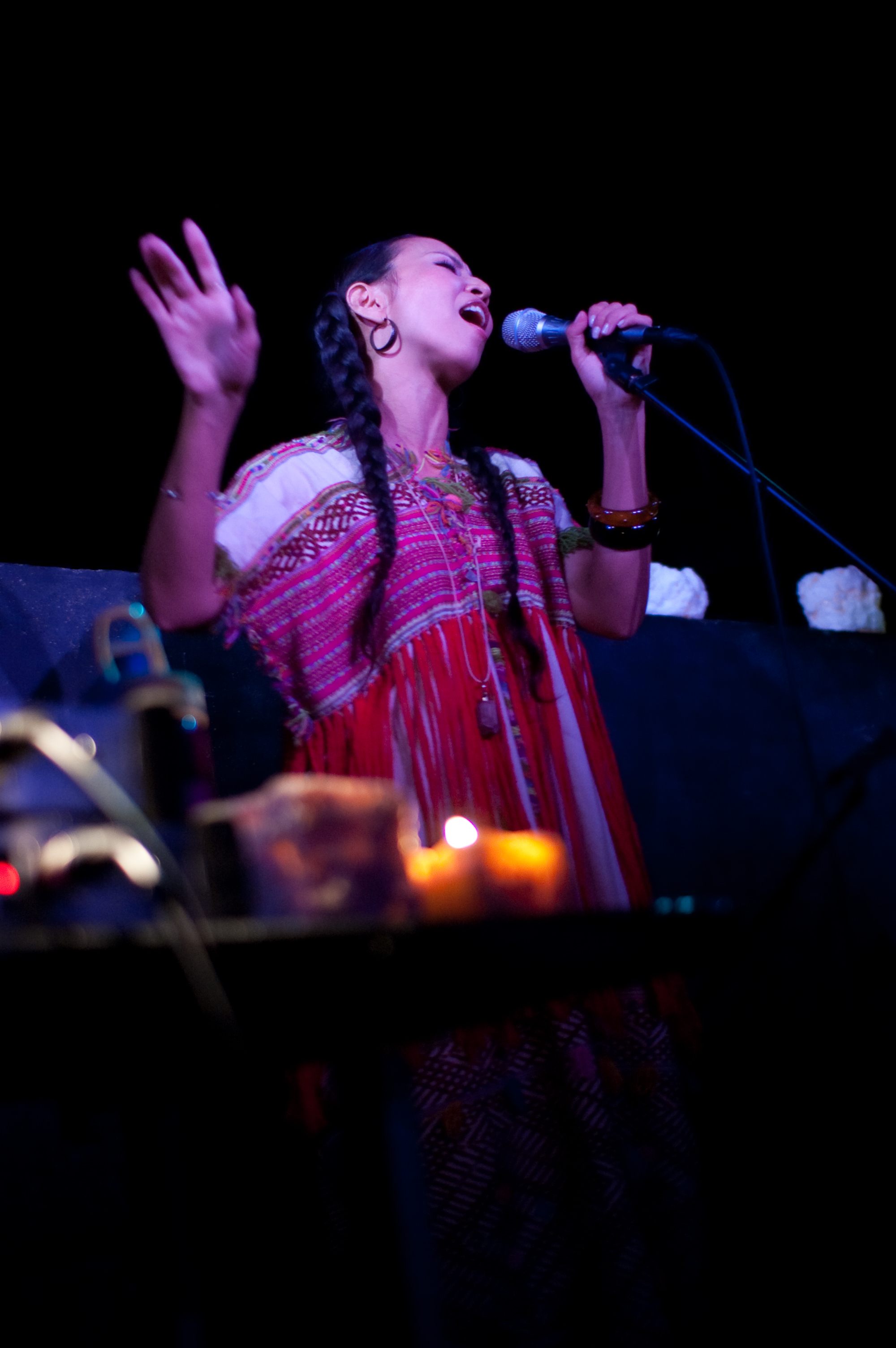 Guest Live: TeN (A Hundred Birds)